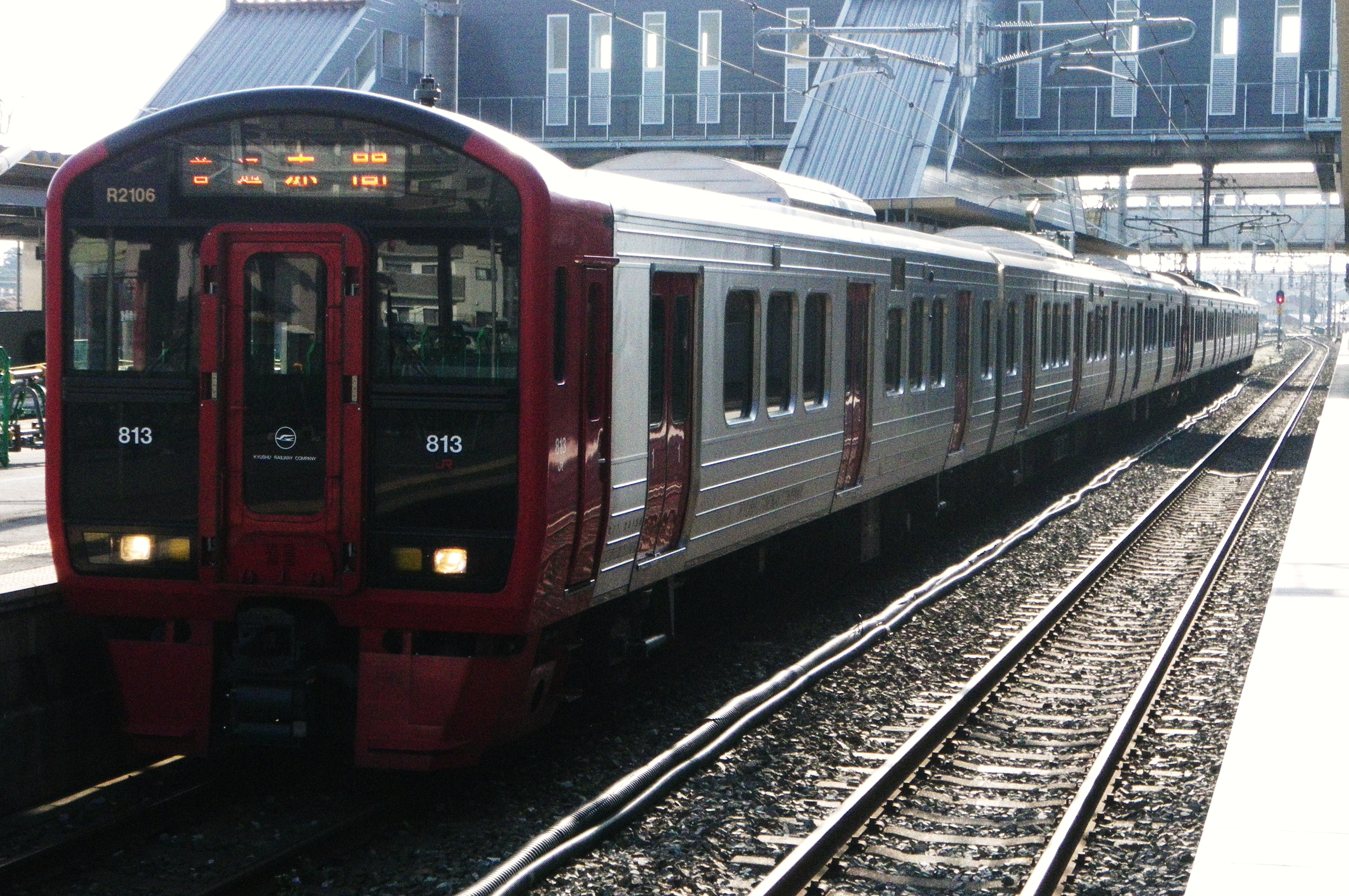 JR Kyushu 813-1100 series EMU temporarily numbered as R2106 at Fukuma Station on the Kagoshima Main Line